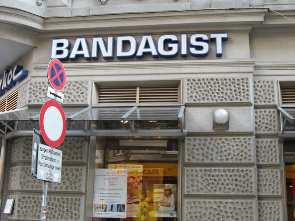 Examples for differing vocabulary in Austrian Standard German A "Bandagist" is in Austria a shop for sanitary and geriatric products. The word derives from French "bandage" (with the same meaning as in English).